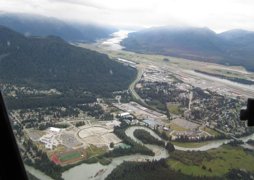 Aerial view of the Mendenhall Valley in Juneau, Alaska. The Mendenhall River snakes across the bottom of the photo. From left to right across the bottom half: Thunder Mountain High School, Mendenhall Mall/Carrs commercial area, Egan Drive and residential area, Nugget Mall/Jordan Creek commercial area, Juneau International Airport and the Mendenhall Wetlands State Game Refuge. Heintzleman Ridge is in the left foreground.